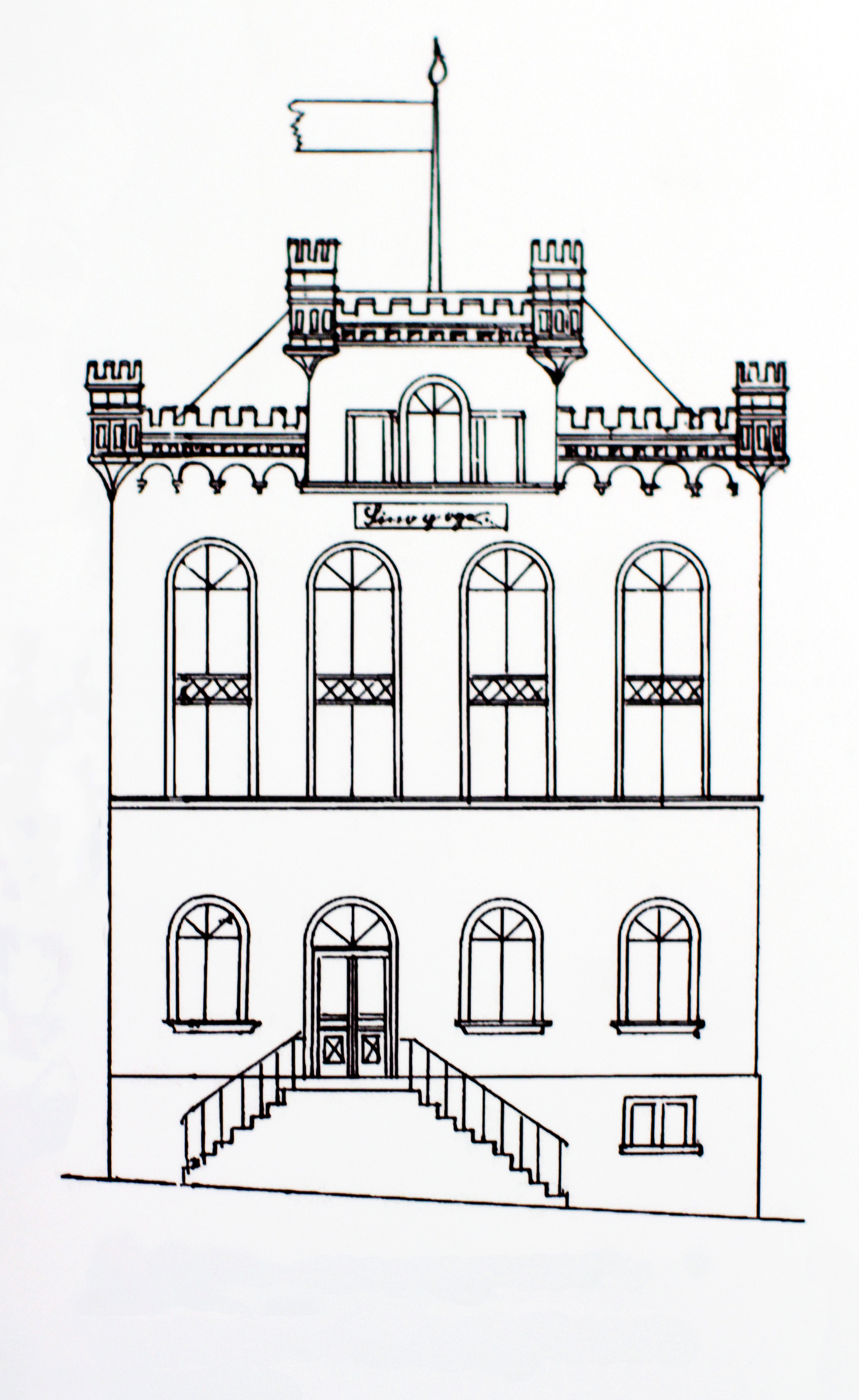 Repro of a architectural drawing 1886 in OberweselOberwesel, Rhine Valley/Germany.